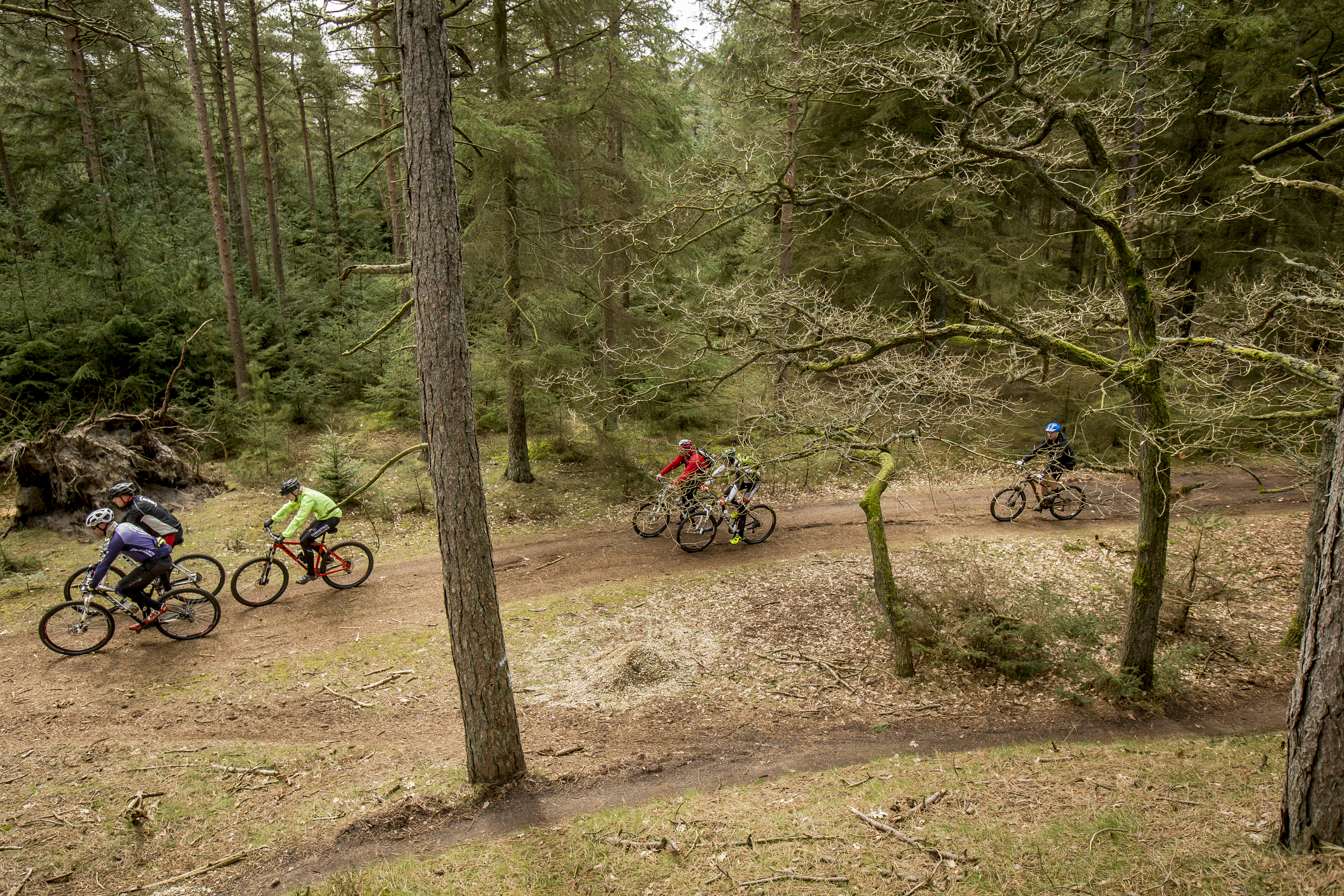 Mountainbikers in a forest in Varde